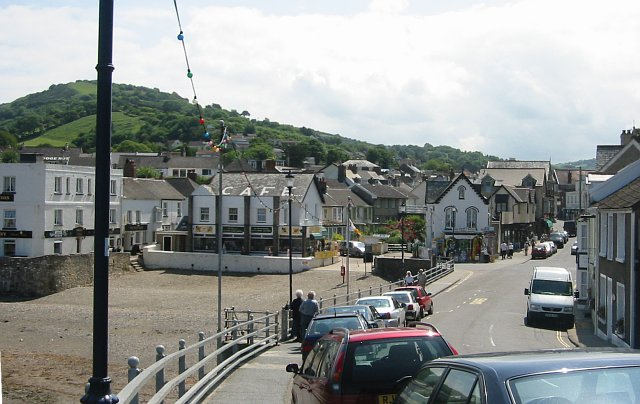 Combe Martin is said to have the longest village street in the country. This large village (or small town) is stretched out for two miles along a single road at the bottom of the valley. This photograph shows the north-western end of the village where it reaches the sea.